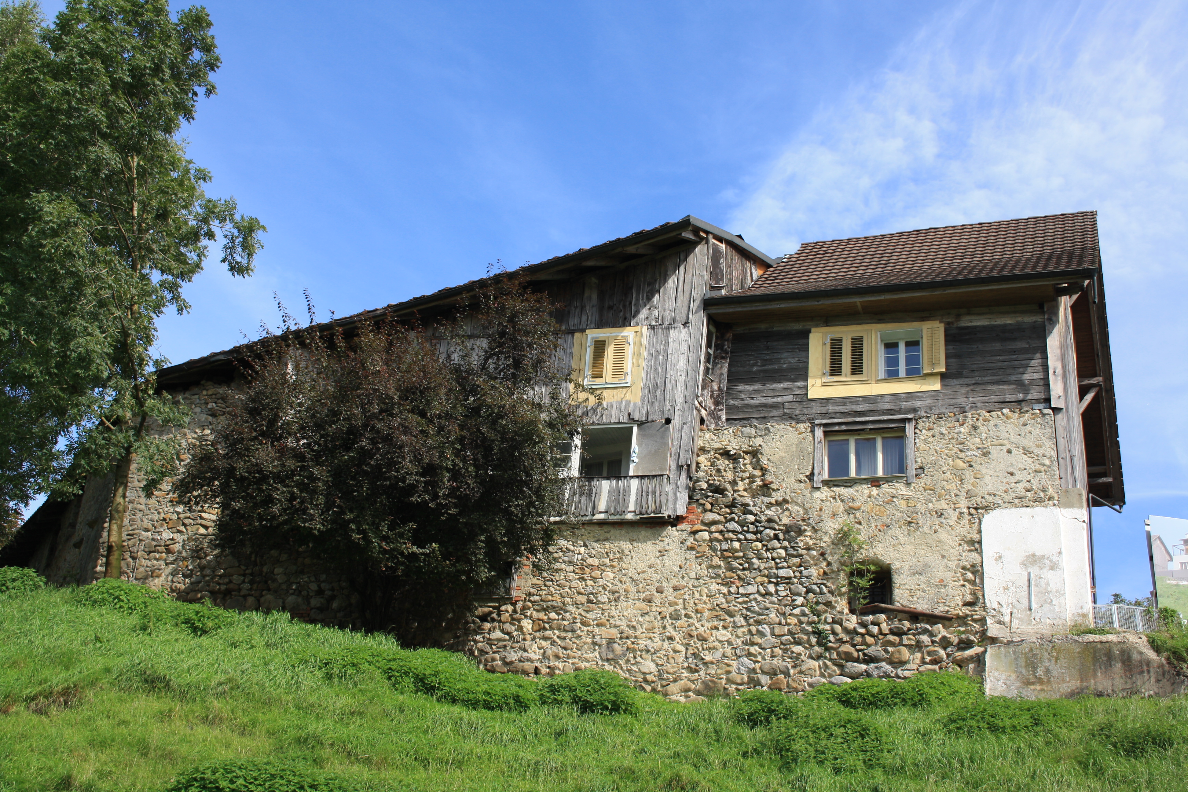 Backside of the "Amtshaus" at Meienberg, Sins, Aargau, Switzerland